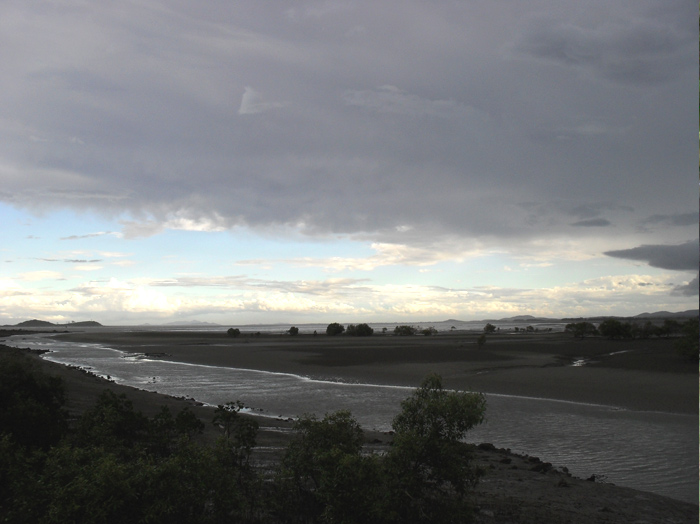 Pumpkin Creek Keppel Sands looking down Long Beach to Curtis Island and seaward to Girt Island